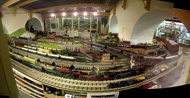 Part of the Brighton Toy and Model Museum's 0-gauge model railway layout